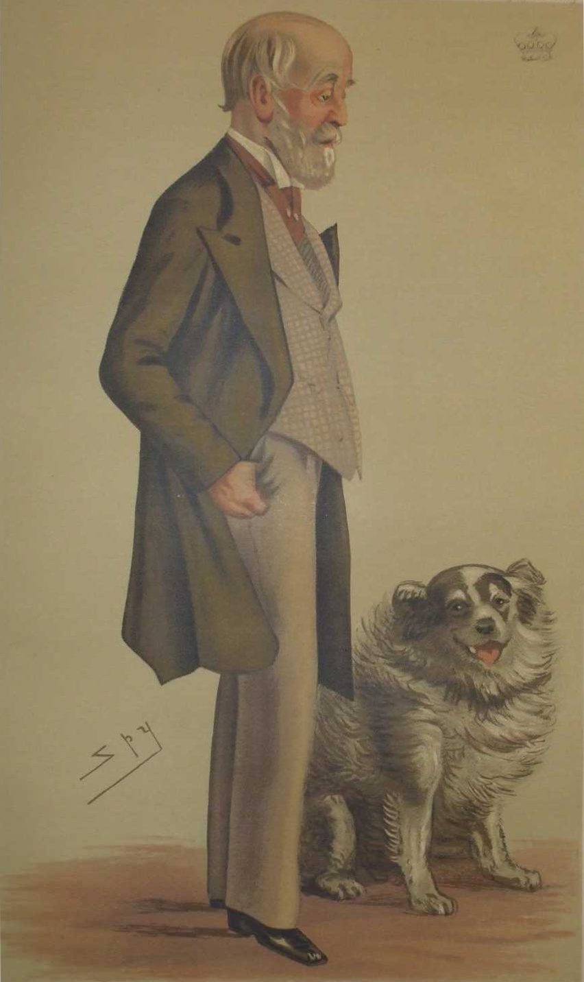 Caricature of Lord Gardner. Caption read "Fox hunting".